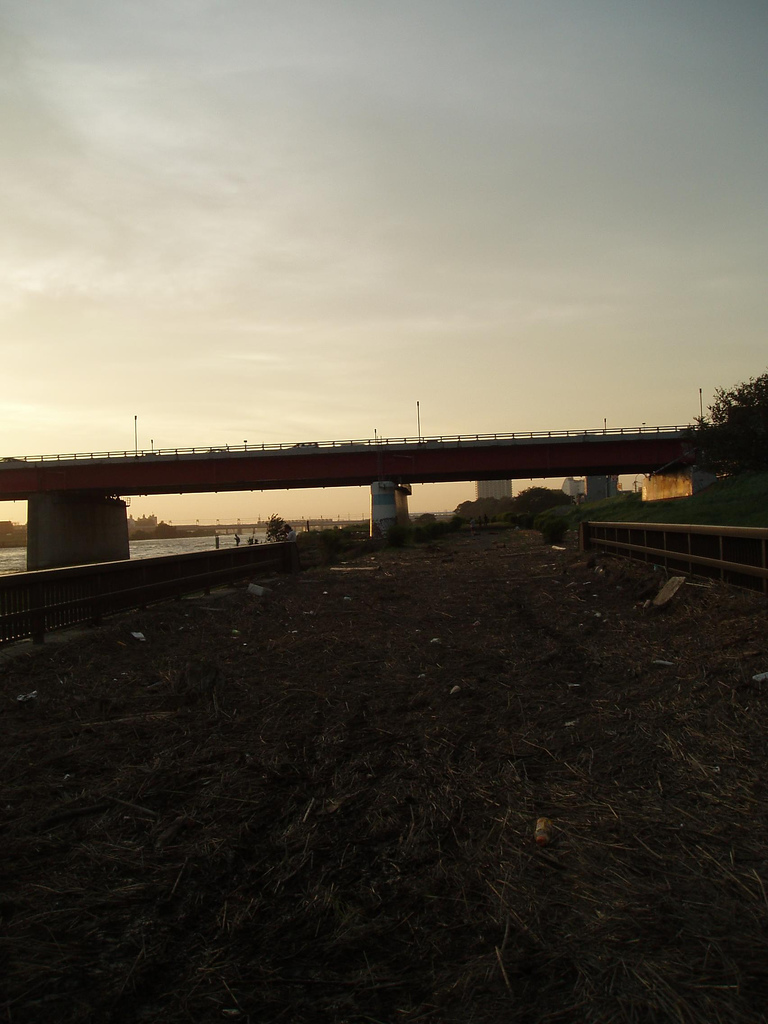 Take a bridge. Carpet it with the soaked remains of hundreds of bamboo bushes. That's what this is, courtesy of Typhoon Fitow. The larger bridge is for motorists, near(ish) Futako-Tamagawa Station on the Tokyu Oimachi and Denentoshi Lines.